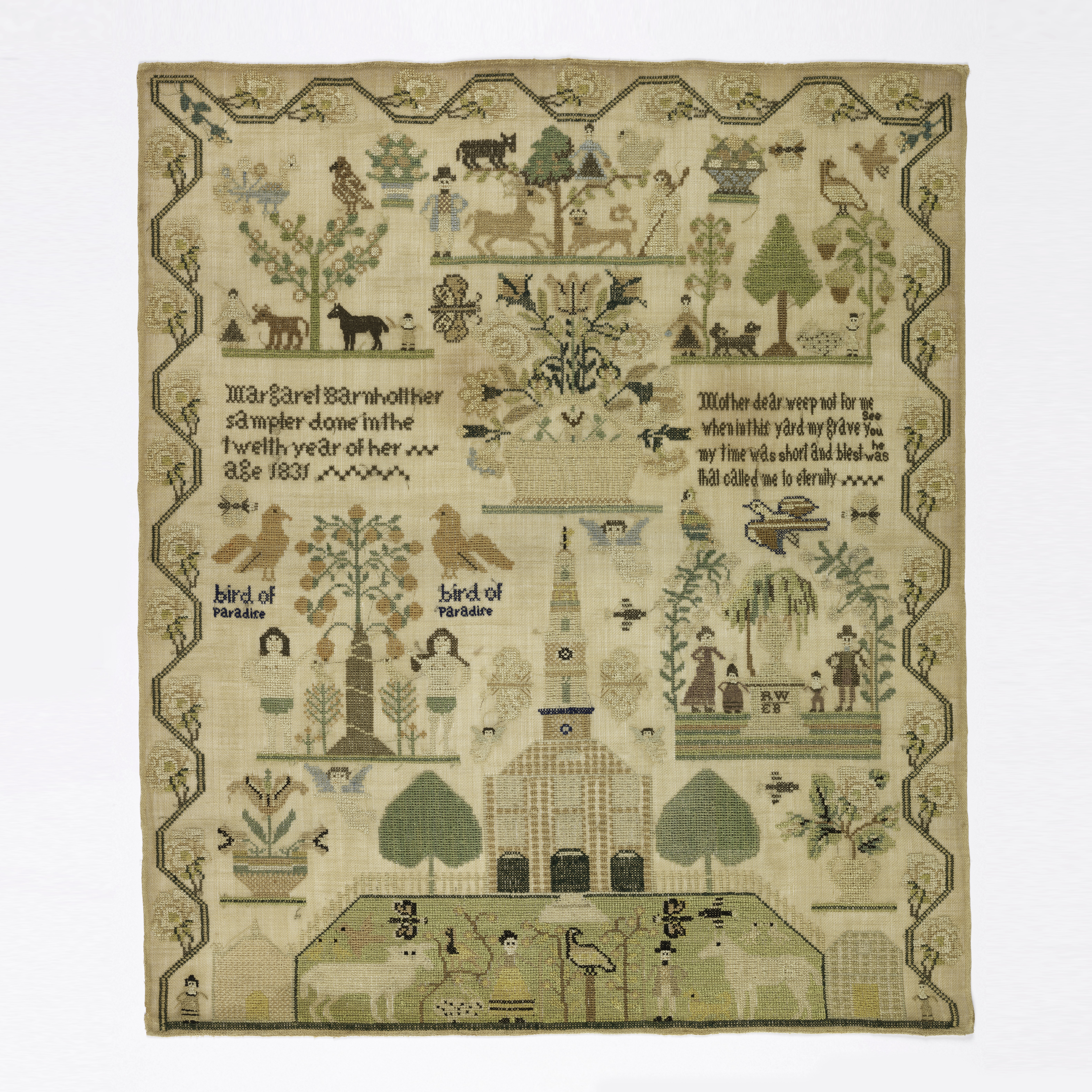 A sampler with six scenes: a church with a garden, figures, animals, birds and butterflies in front; the garden of Eden with Adam and Eve; and a mourning scene with a weeping willow, and funerary urn, and four figures, two adults and two children. Three additional scenes show figures with animals and trees. With a rose vine border. The verse reads: Mother dear weep not for me When to this yard my grave you see my time was short and blest was he that called me to eternity